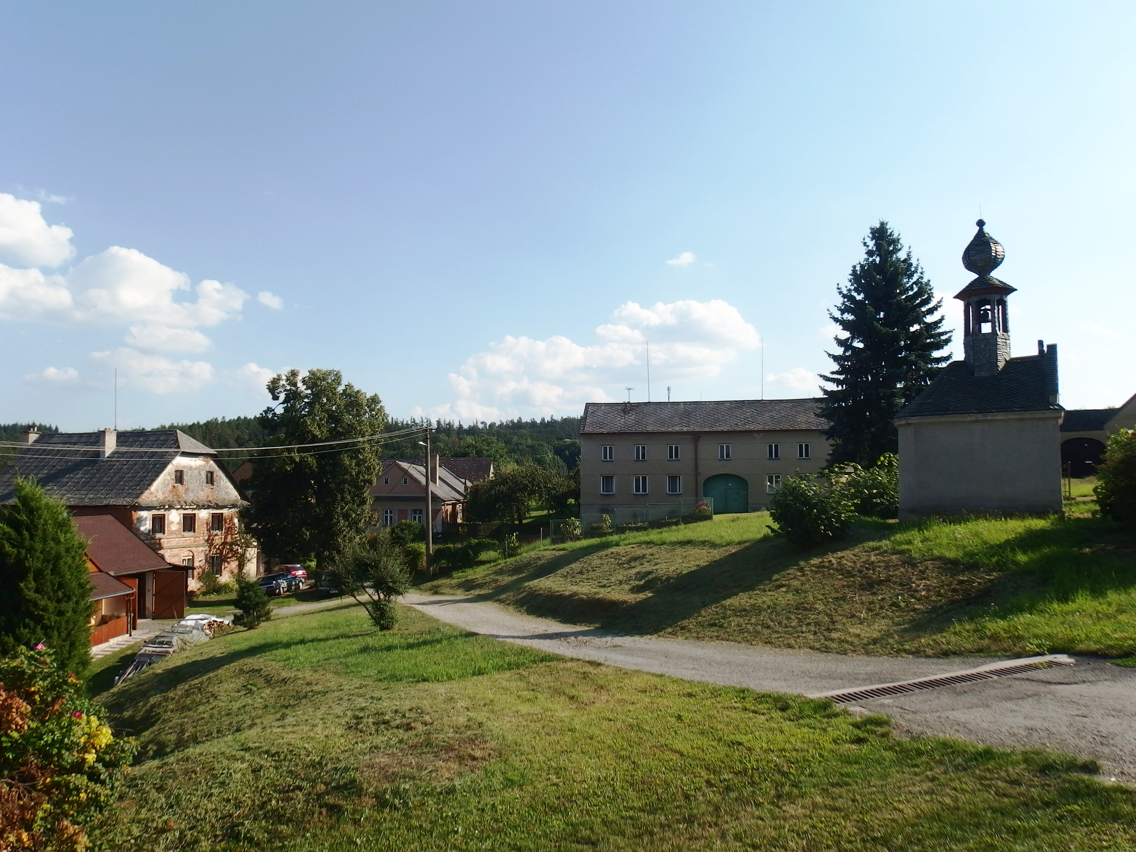 Pavlov, Šumperk District, Czech Republic, part Veselí.